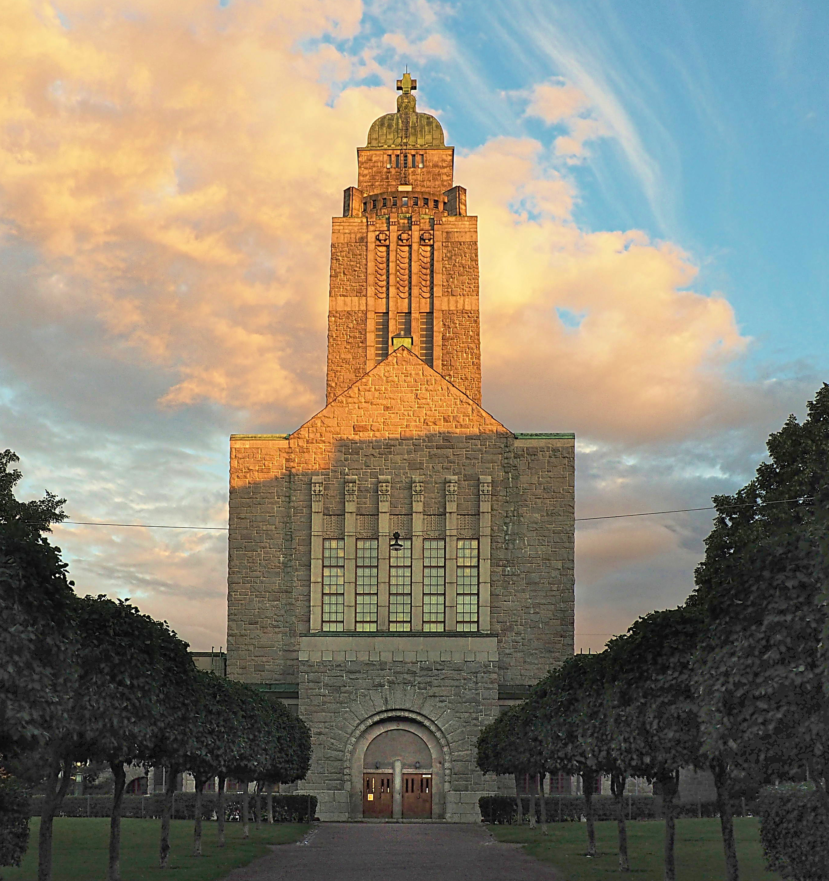 Kallio Church by Lars Sonck (1912)